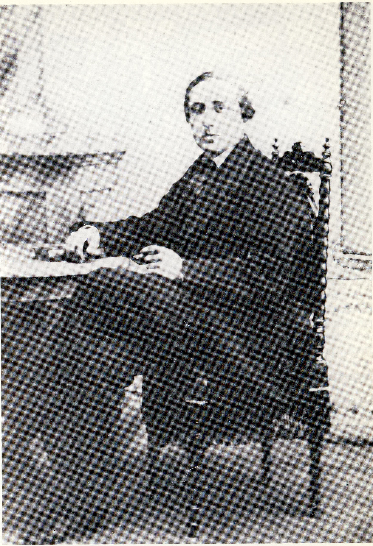 Leo Mechelin 1861 or 1862